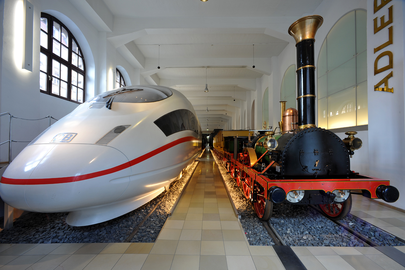 DB Museum in Nuremberg, „Adler“-replica from 2007, first locomotive in Germany, besides a walk-in mockup of an ICE 3; Bavaria, Germany.